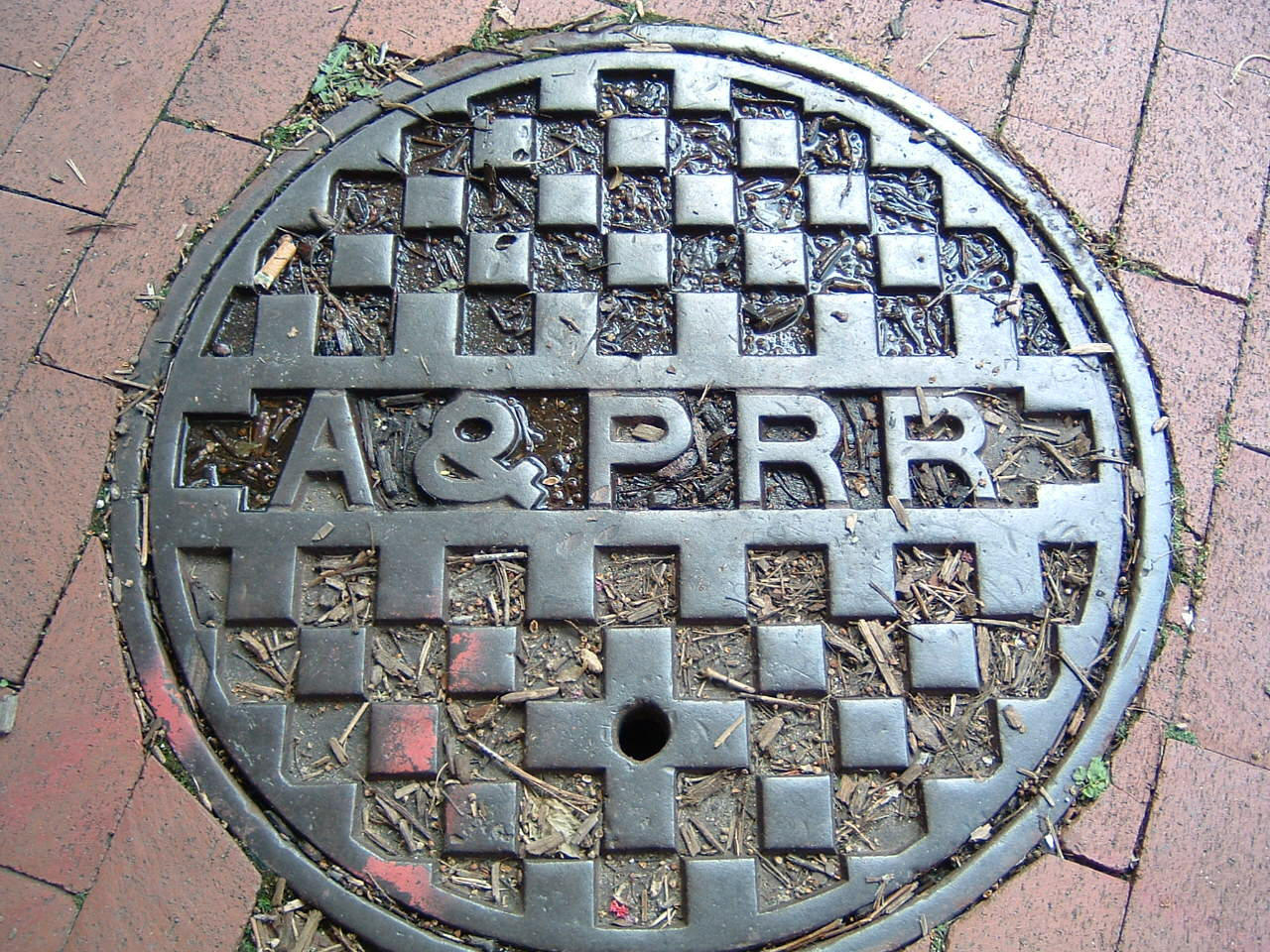 Extant manhole cover from the Anacostia and Potomac River Railroad Company at 222 11th Street SE, Washington, DC